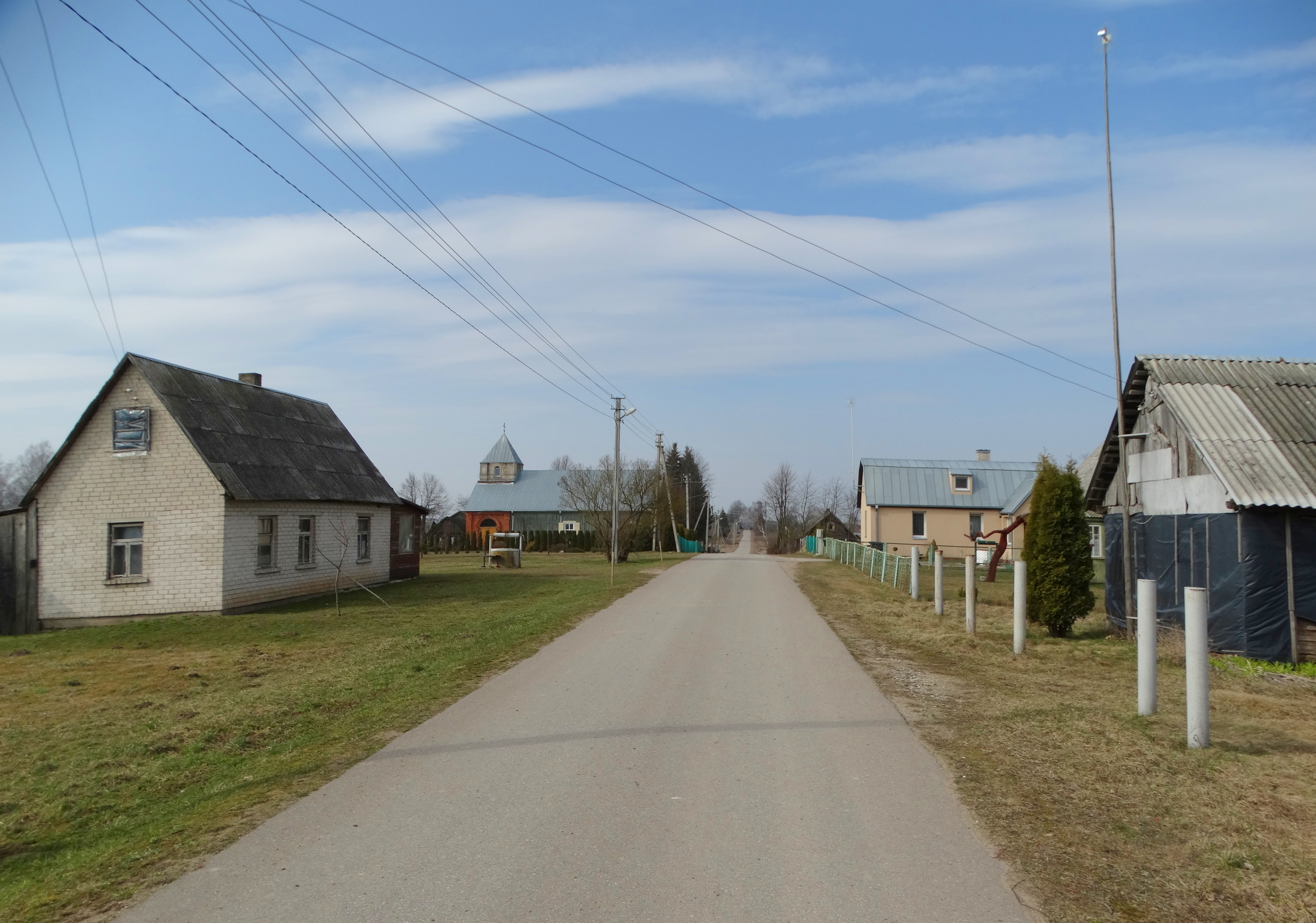 Ibėnai, Kaunas district, Lithuania